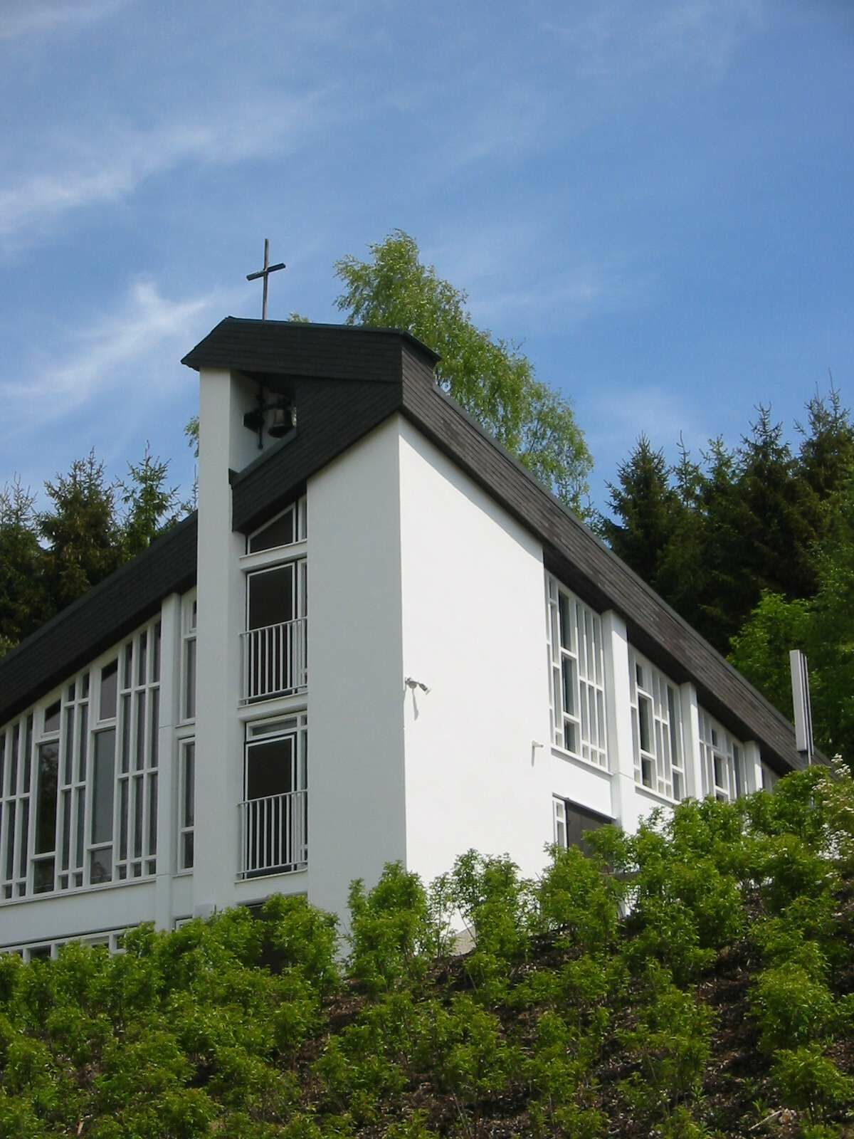 Aue, Church